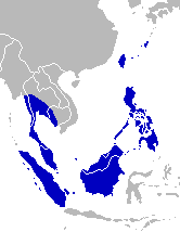 Distribtion map of the Paper Kite or the Rice Paper butterfly (Idea leuconoe)